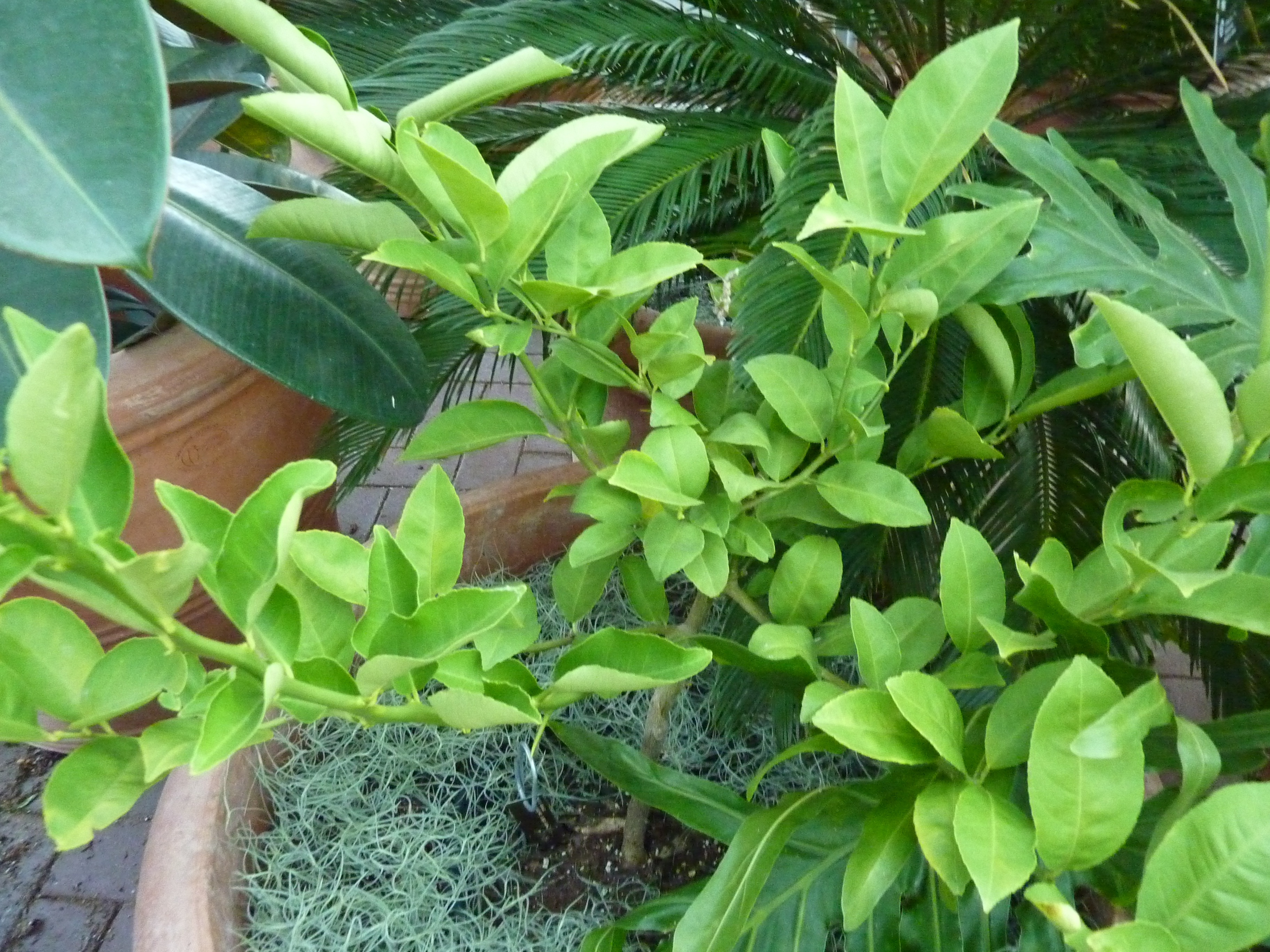 Palestine sweet lime, Citrus limettioides, in the Linnean House of the Missouri Botanical Garden